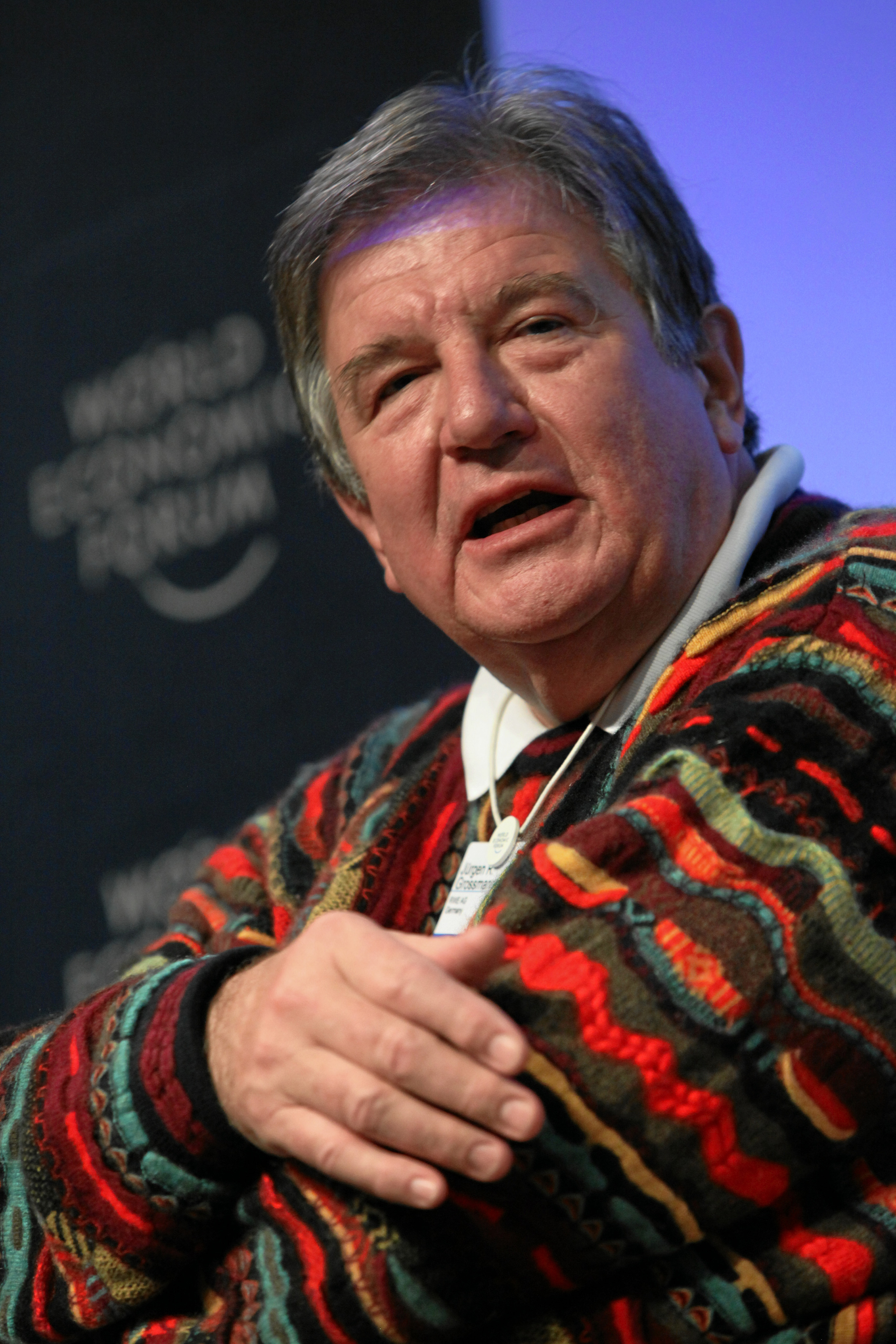 DAVOS-KLOSTERS/SWITZERLAND, 31JAN09 - Jürgen R. Grossmann, President and Chief Executive Officer, RWE, Germany, captured during the session 'The Challenge of Sustainable Mobility' at the Annual Meeting 2009 of the World Economic Forum in Davos, Switzerland, January 31, 2009. Copyright by World Economic Forum by Monikia Flueckiger